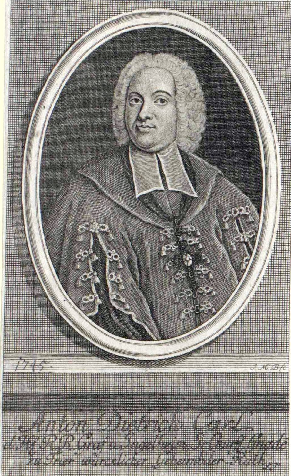 Anton Dietrich Karl von Ingelheim (1690-1750), Chorbischof im Bistum Trier, kurfürstlicher Statthalter in Koblenz